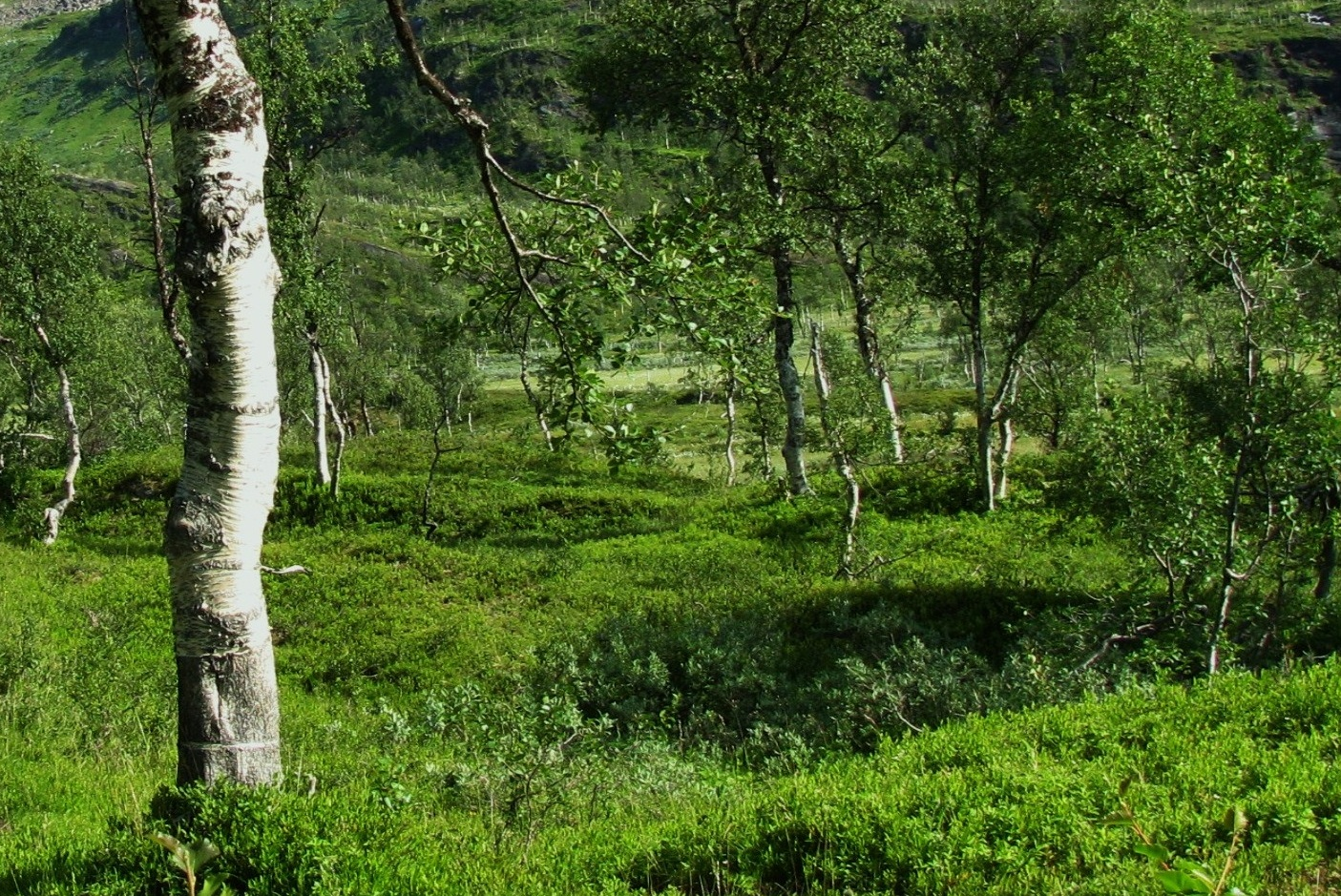 Summer landscape in the north boreal birch forest, 250 km north of the Arctic Circle, altitude 320 m / 1000 ft, Evenes municipality, Nordland, Norway. The waterfall is Spruten. This waterfall is part of the protected Lakså river system, wich in the upper part include several small rivers and creeks, several lakes and salmon in the lower part of the river (not pictured). The mountain peaks reach up to 1050 m / 3500 ft. Adjusted exposure compared to earlier image uploaded.